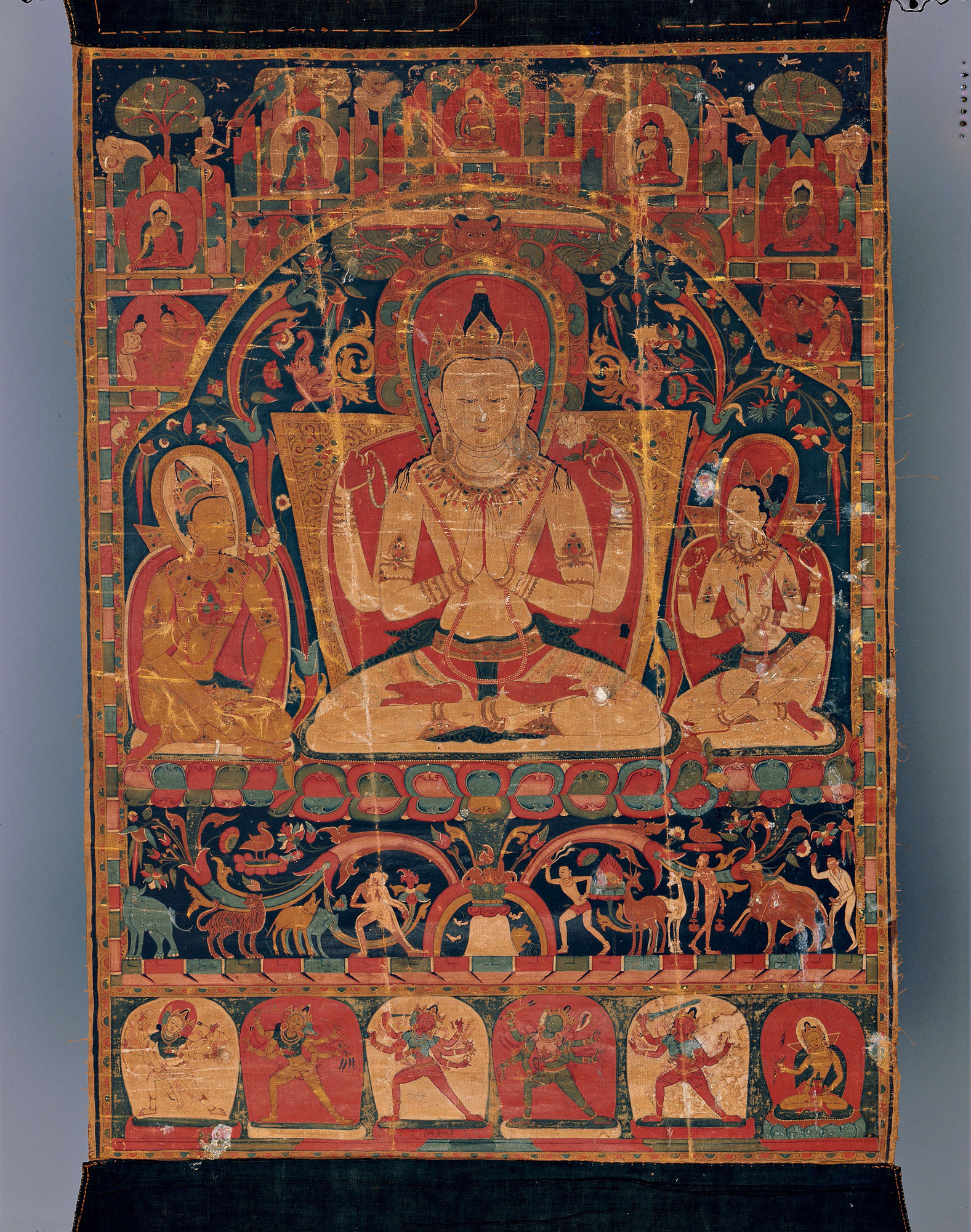 Shadakshari-Lokeshvara, 1st half of the 13th century, Potala, Lhasa